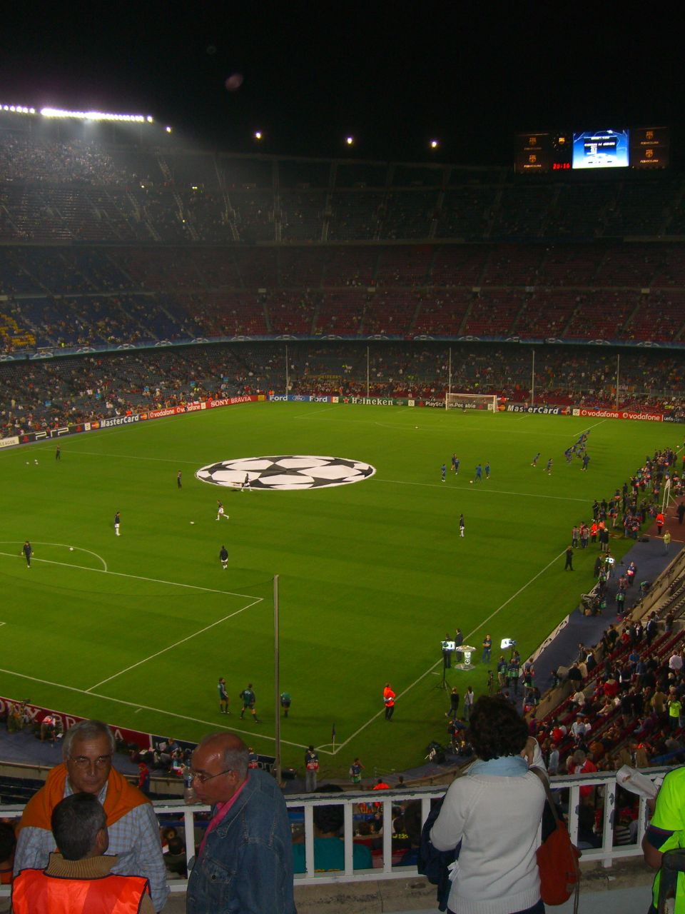 Champions league 2006-07 match. FC Barcelona - Chelsea FC.